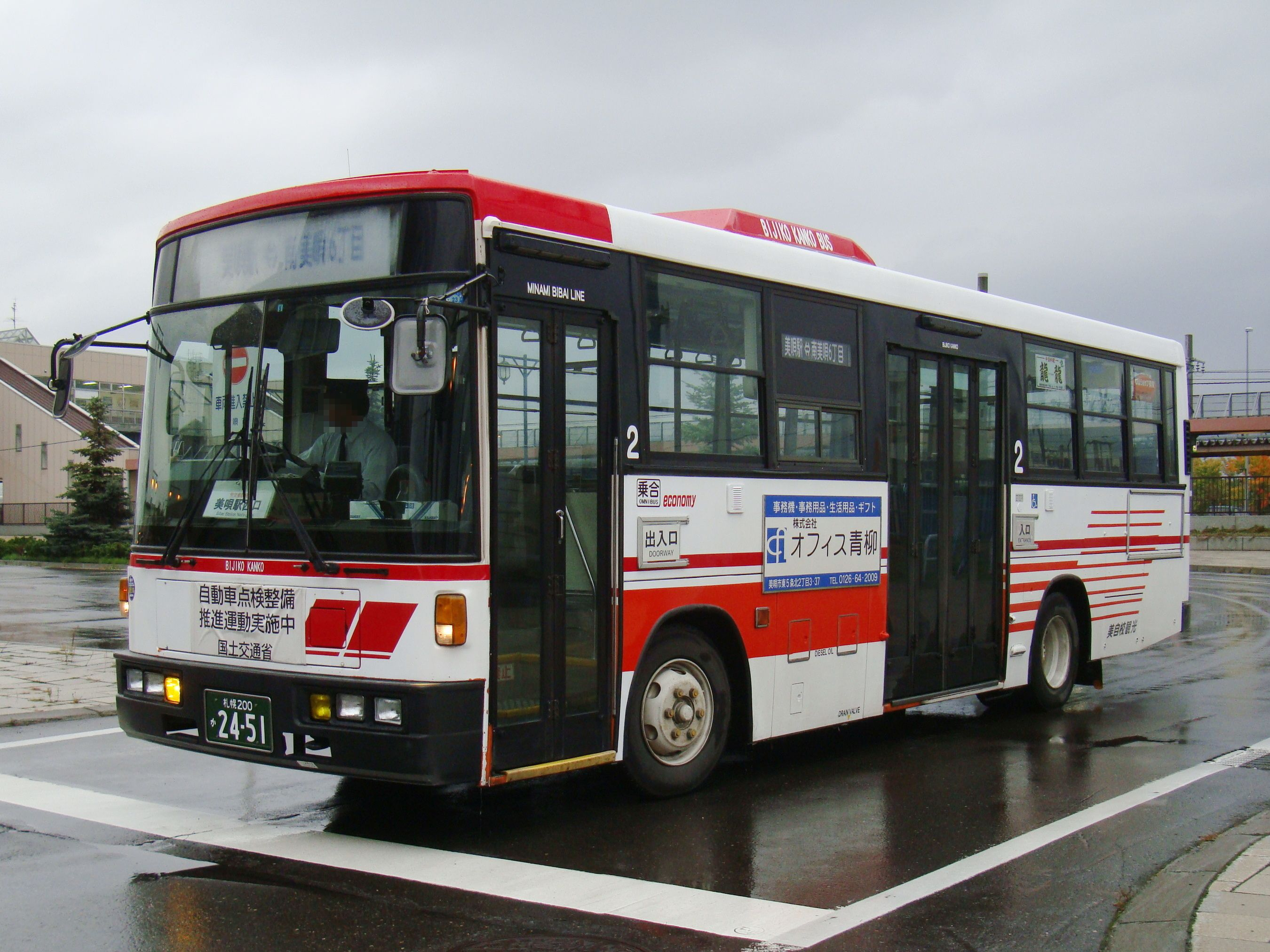 Bibai city line